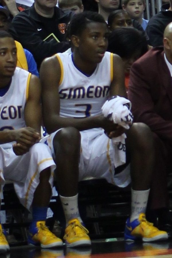 Donte Ingram watching Kendrick Nunn from the bench in the 2013 Illinois High School Association boys basketball finals